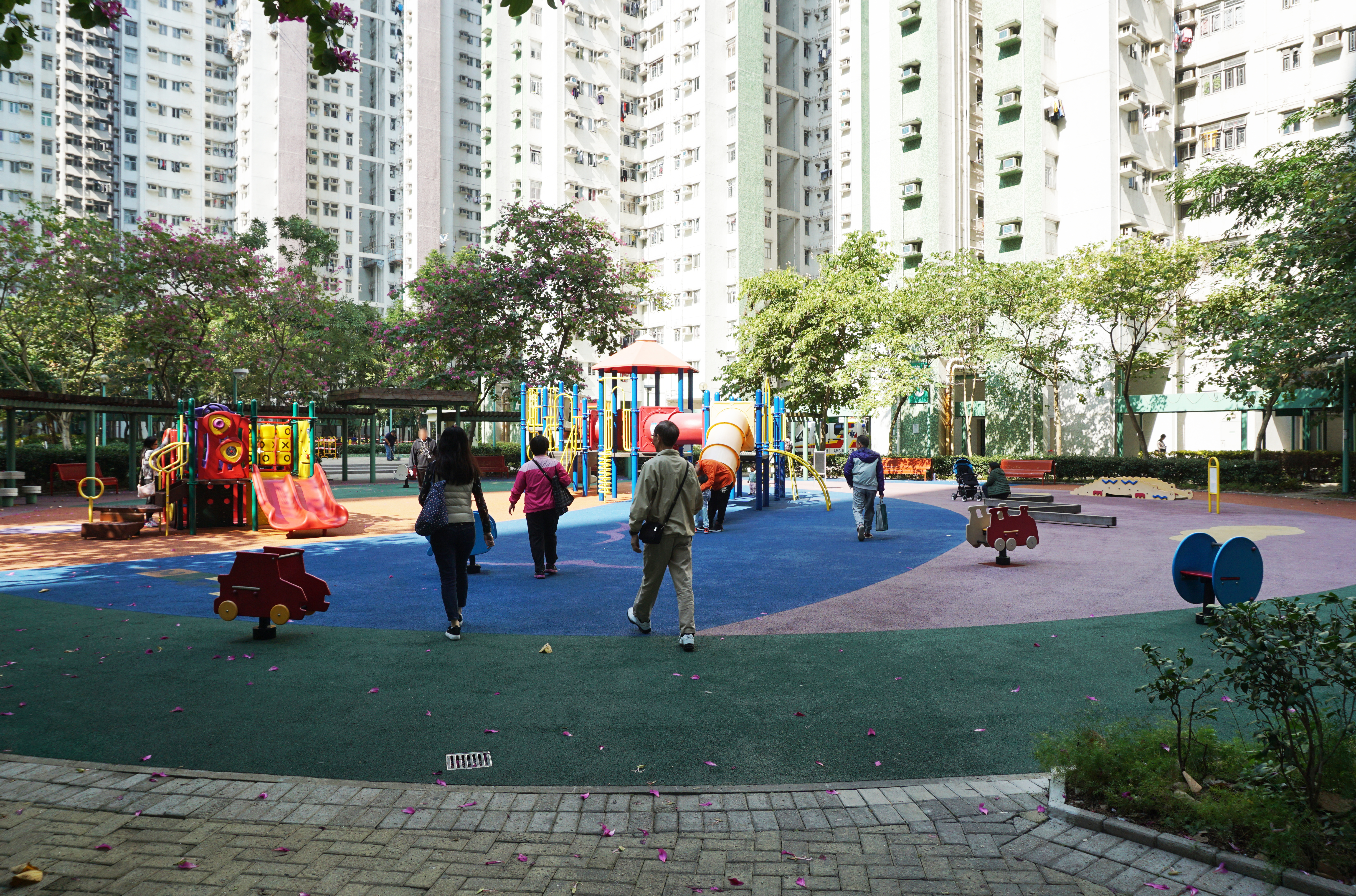 Glorious Garden in Tuen Mun, Hong Kong.